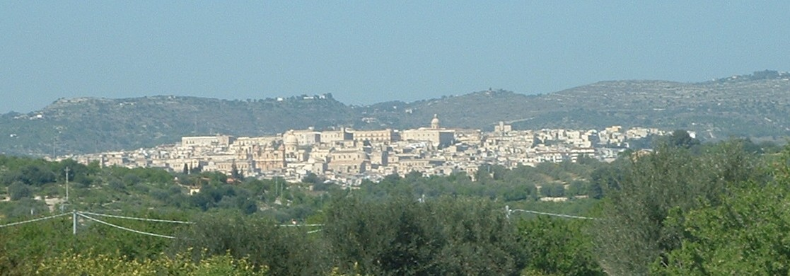 Noto (SR), View from SP 19.